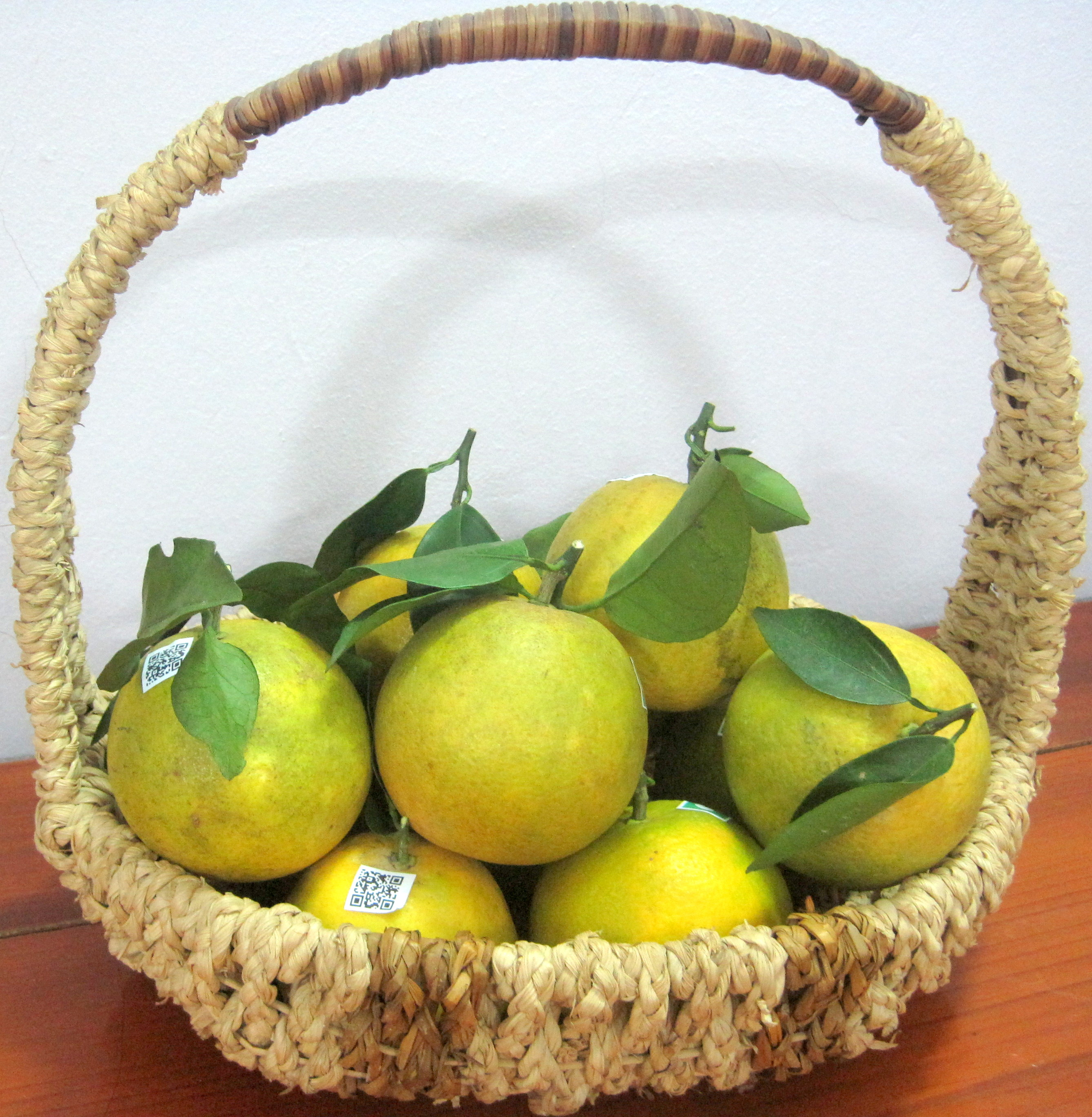 Vinh orange - a specialty of Nghe An province